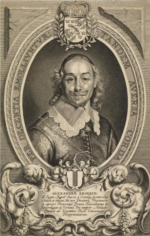 Baron Alexander Erskein by Cornelis Galle the Younger, after Anselmus Hebbelynck line engraving, c.1648.